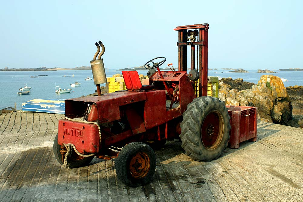 Manitou forklift in the harbour of Pors-Éven, France